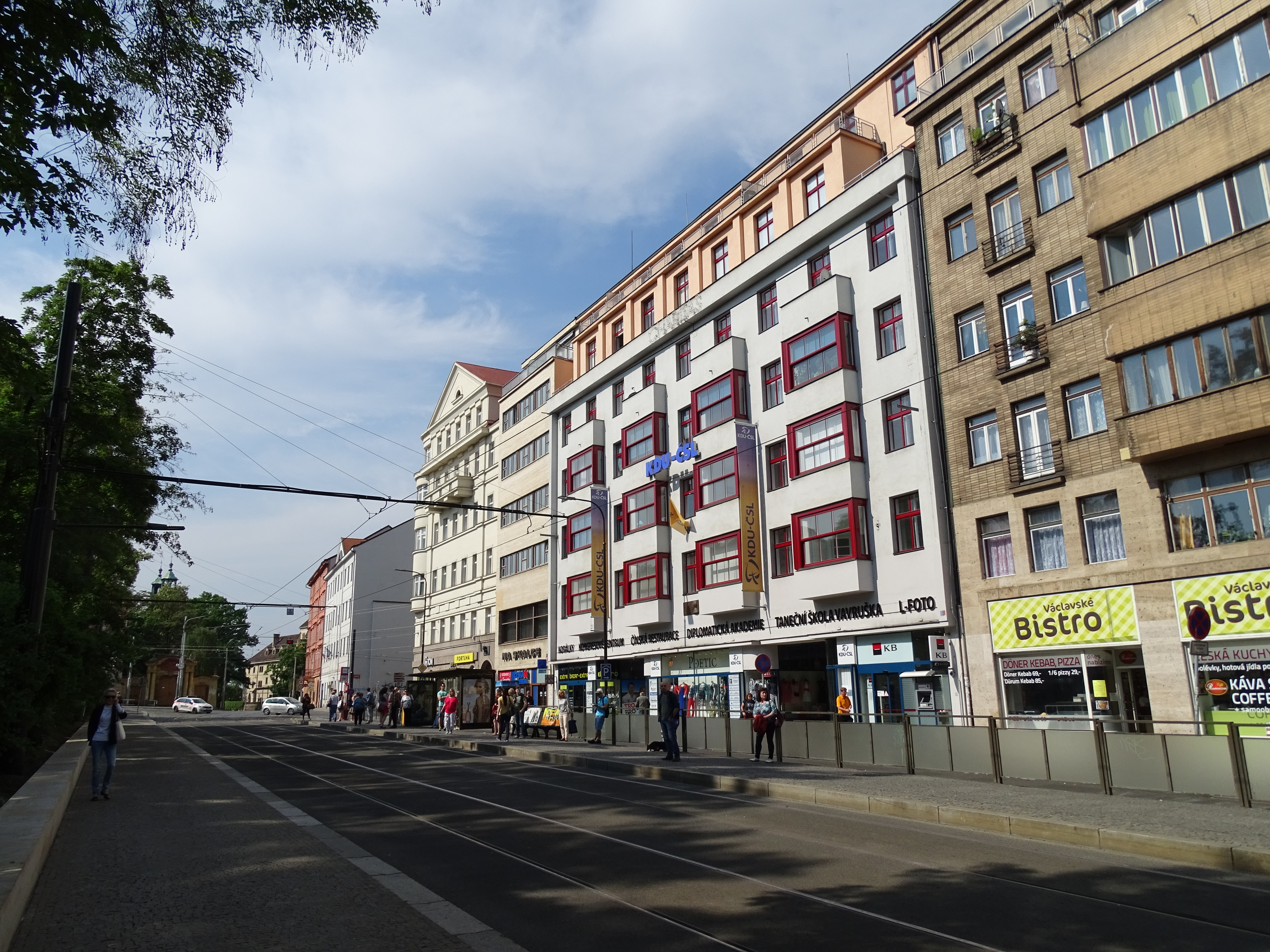 Prague-New Town, Czech Republic. Karlovo náměstí, tram stop Moráň.